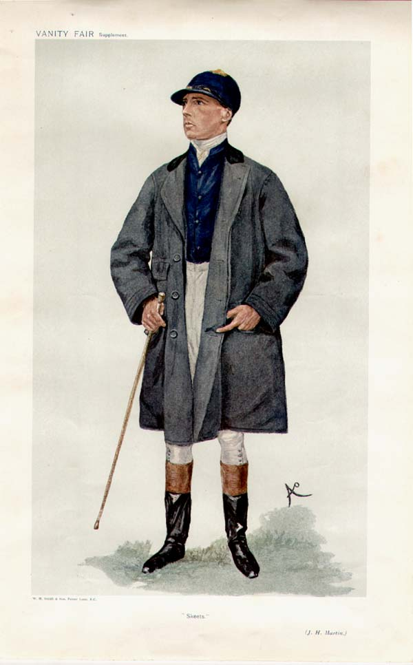 Caricature of John Henry "Skeets" Martin (1875-1944).